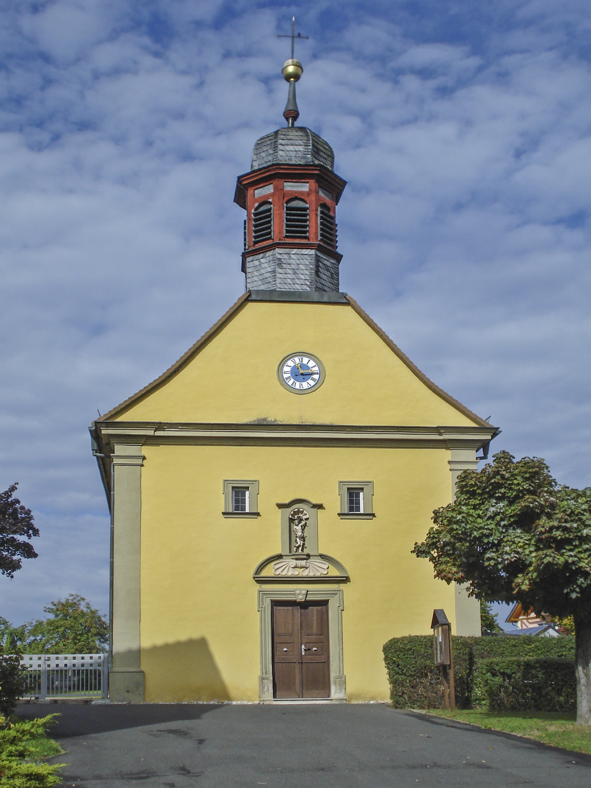 Wonfurt, Gemeindeteil Steinsfeld